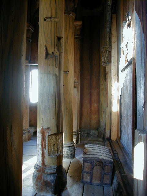 Interior from Torpo Stave Church of Norway